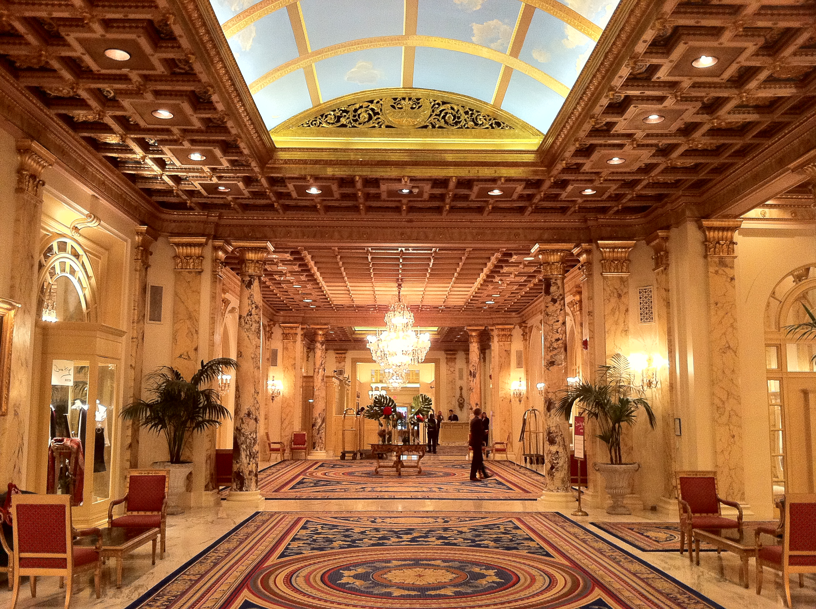 Inside the Fairmont Copley Plaza